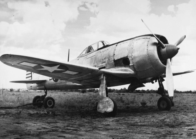 PictionID:6485603 - Catalog:01_00086188 - Title:Nakajima, Ki-44, Shoki 'Devil Queller' Tojo 'John' Army Type 2 Single seat Fighter' - Filename:01_00086188.TIF - Image from the Charles Daniels Photo Collection album "Seversky, Republic and P-47"----PLEASE TAG this image with any information you know about it, so that we can permanently store this data with the original image file in our Digital Asset Management System.----SOURCE INSTITUTION: San Diego Air and Space Museum Archive